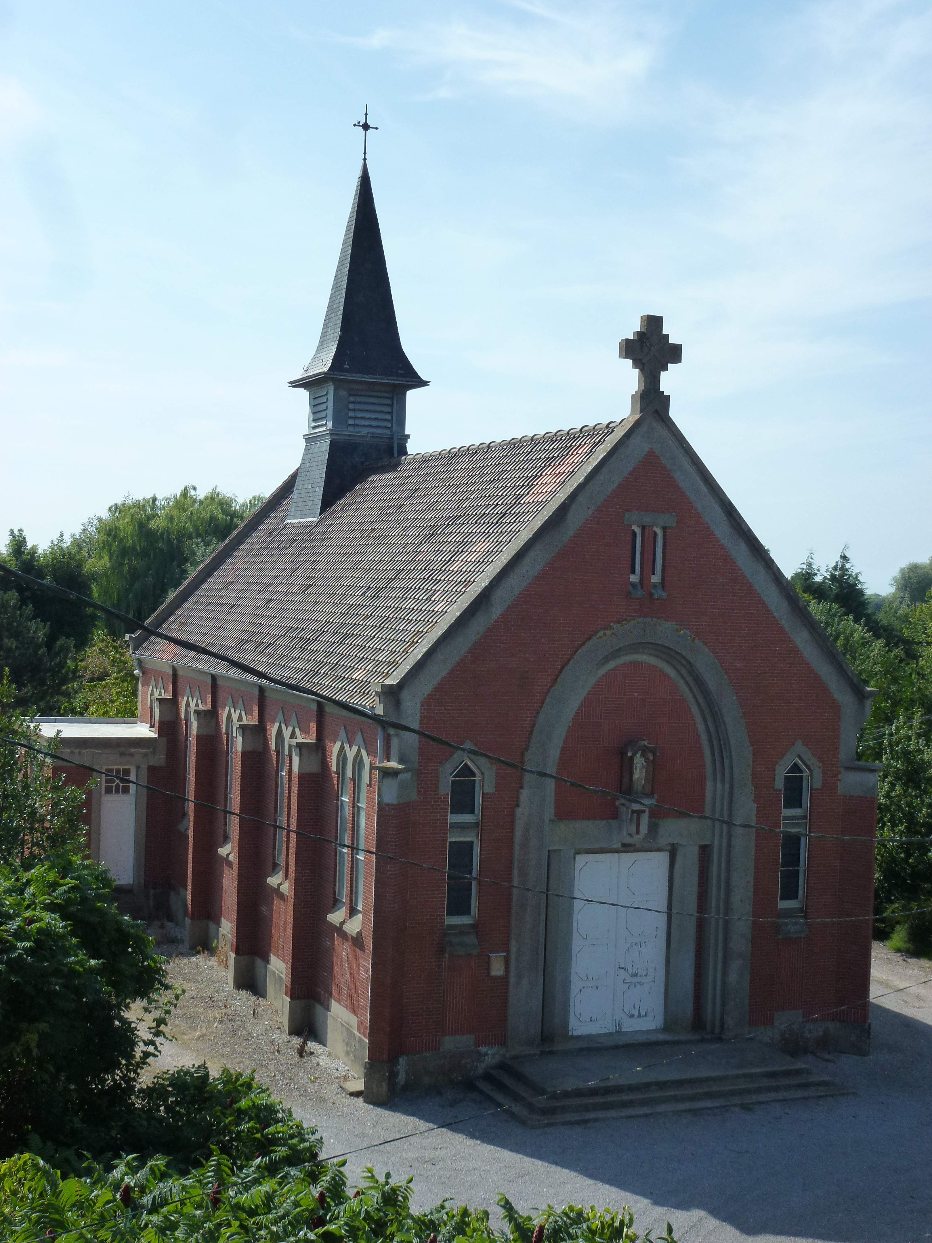 Ardres (Pas-de-Calais) Pont-d'Ardres, chapelle